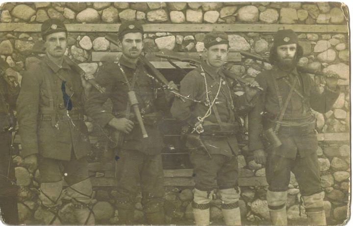 Ilia Lerinski Two Unknown and Kosta Ivanov